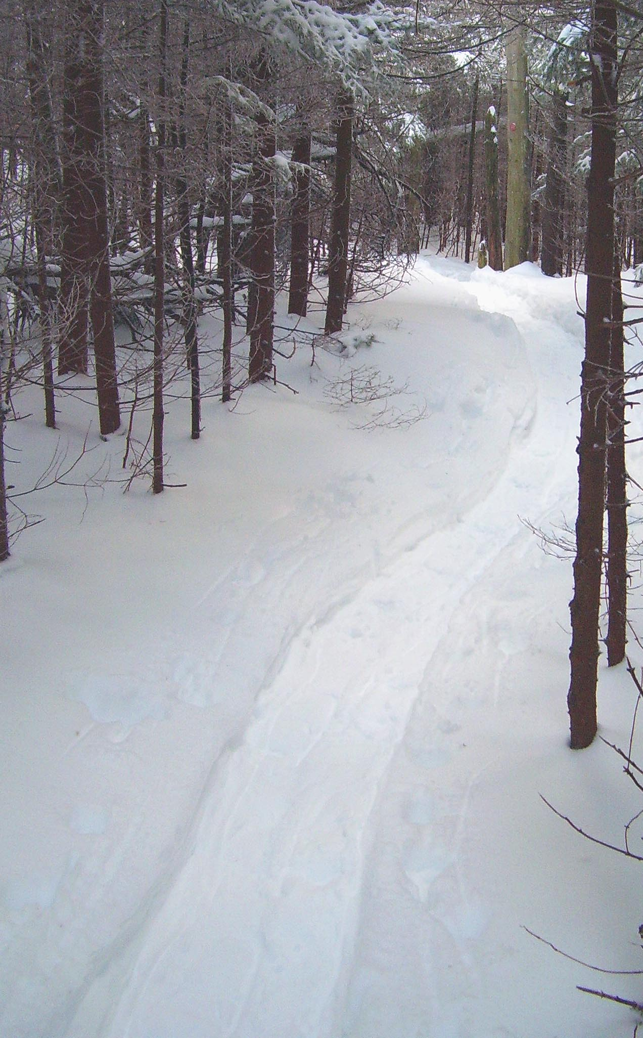 Photographed by Daniel Case on Plateau Mountain in the Catskills 2006-01-08.